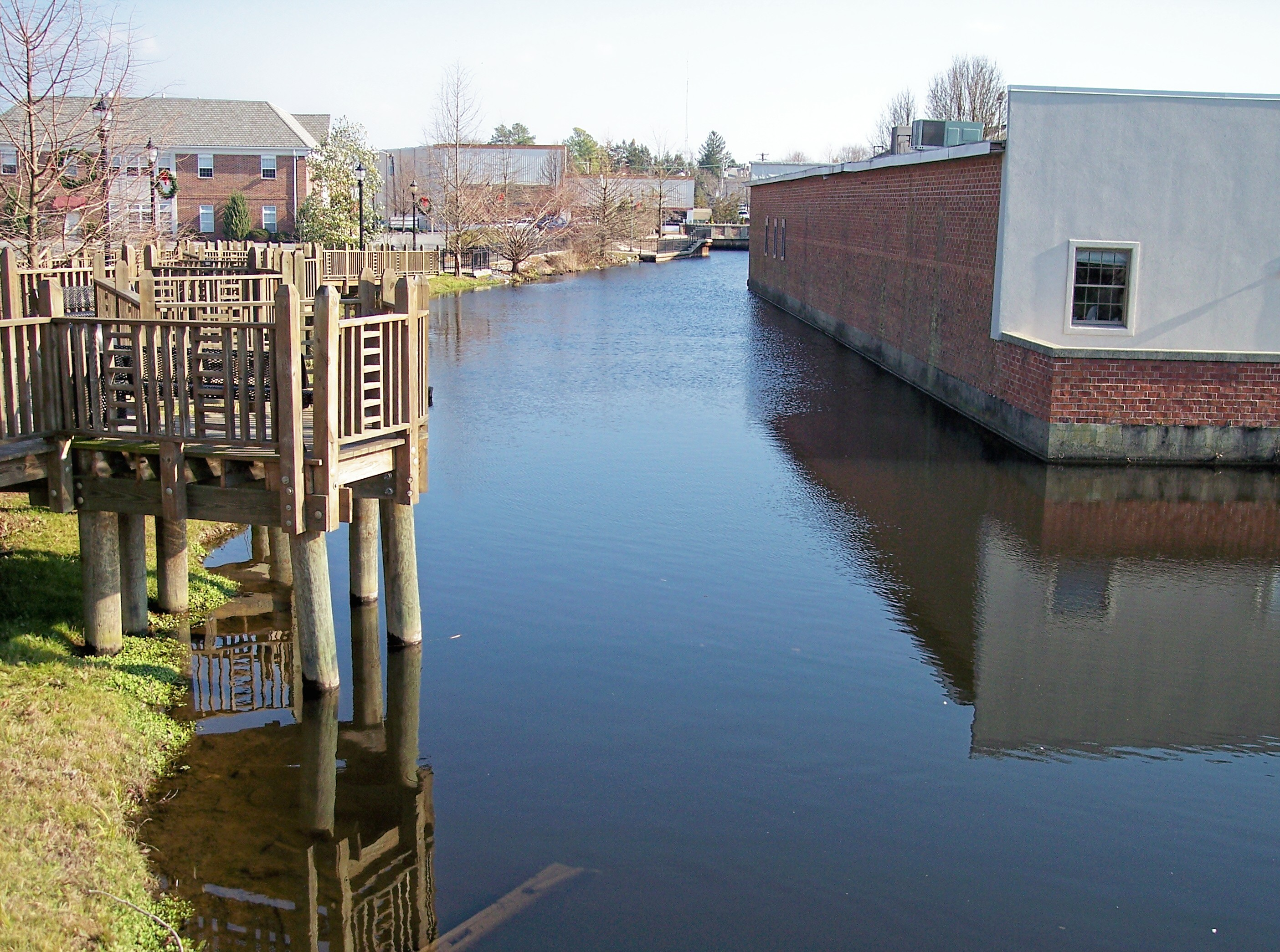 The Mispillion River in Milford, Delaware, as viewed downstream from a pedestrian boardwalk along the river